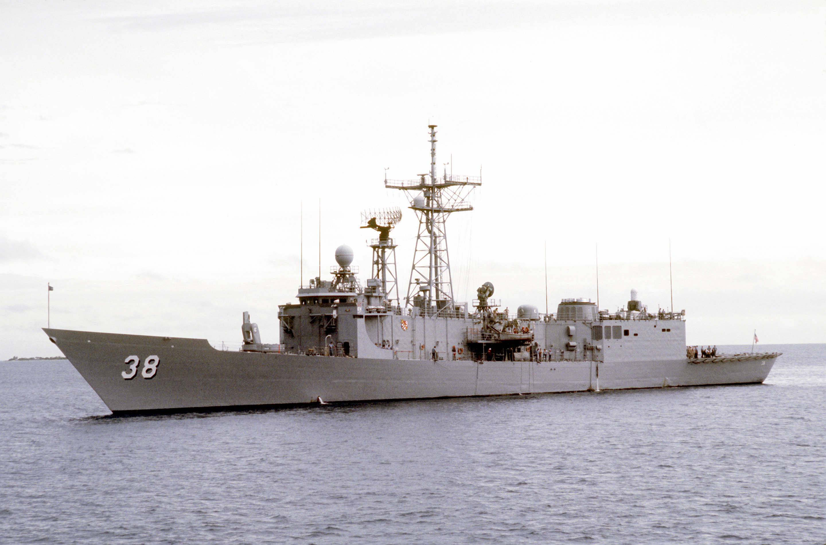 The U.S. Navy guided missile frigate USS Curts (FFG-38) departing Naval Base San Diego, California (USA), for the Persian Gulf on 16 November 1992.